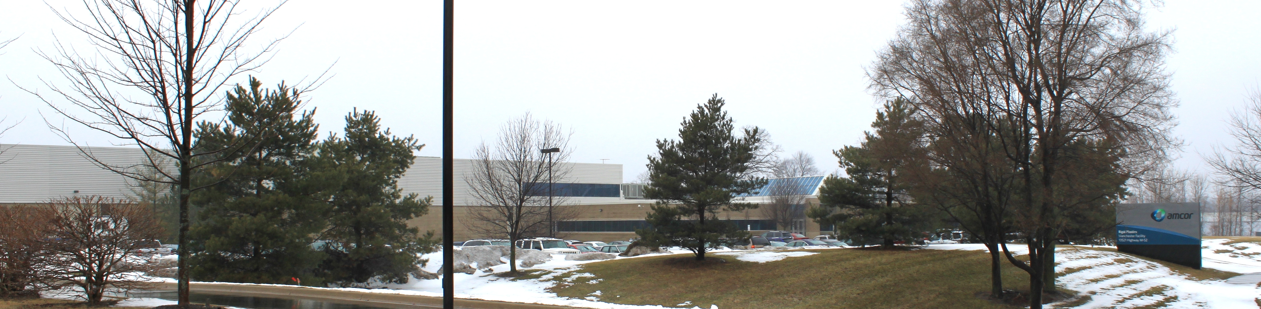 Amcor Rigid Plastics plant, 10521 Michigan State Road 52, Manchester, Michigan